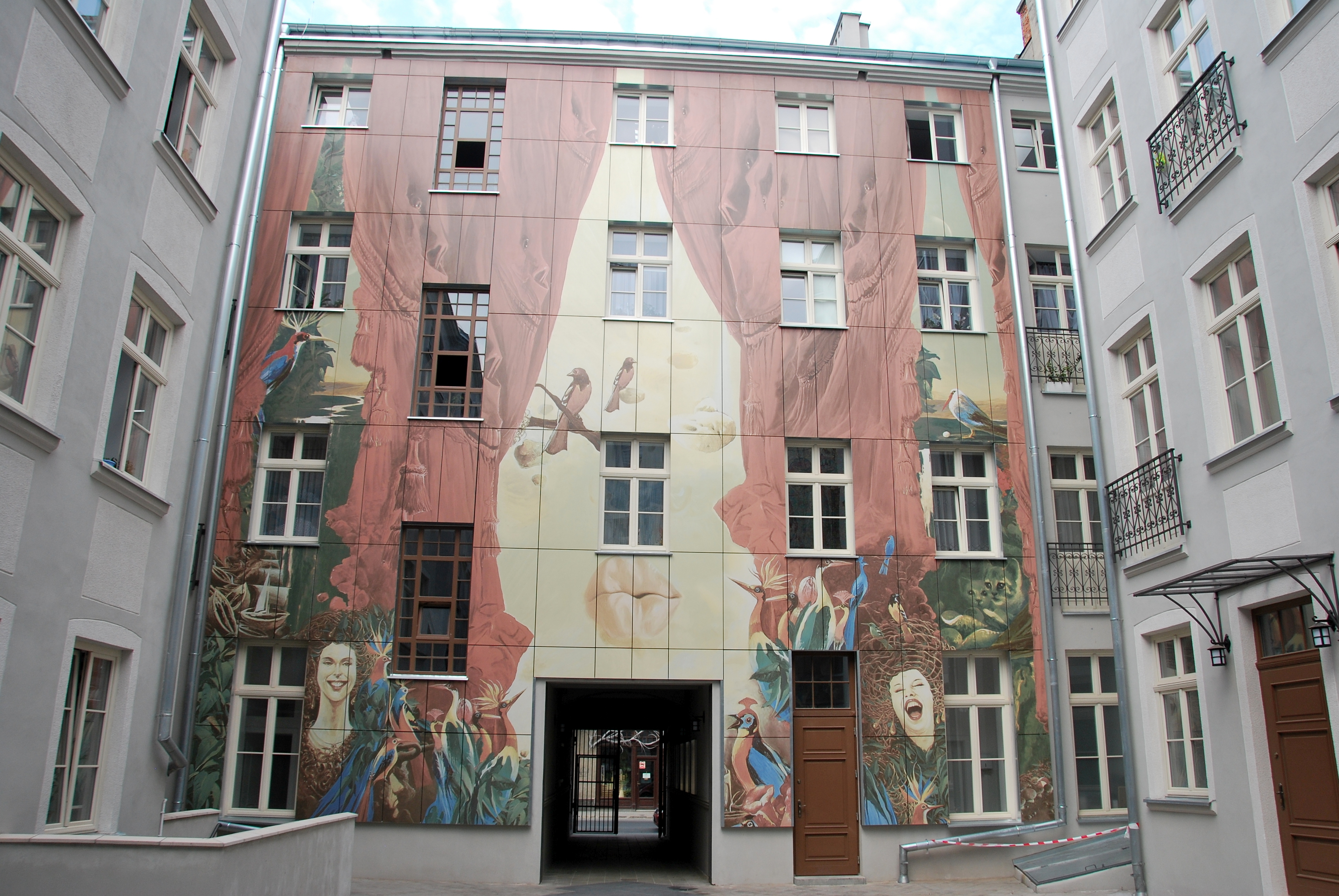 Wojciech Siudmak 'Narodziny dnia' (The Birth of Day) picture on the walls of 4 Więckowskiego Street tenement house in Łódź